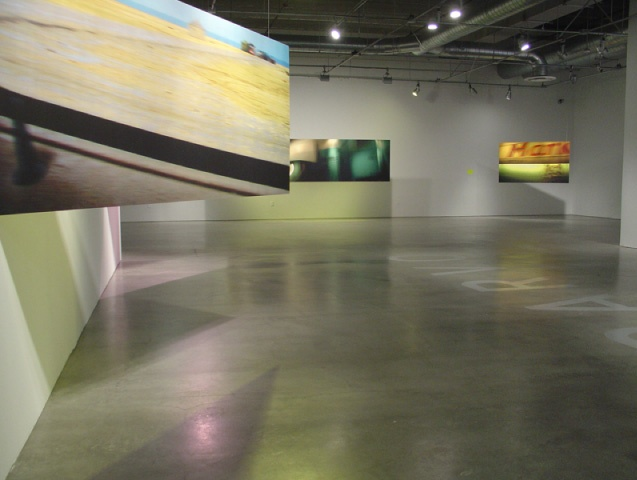 Photo taken from the 'drive-by shooting' exhibition.